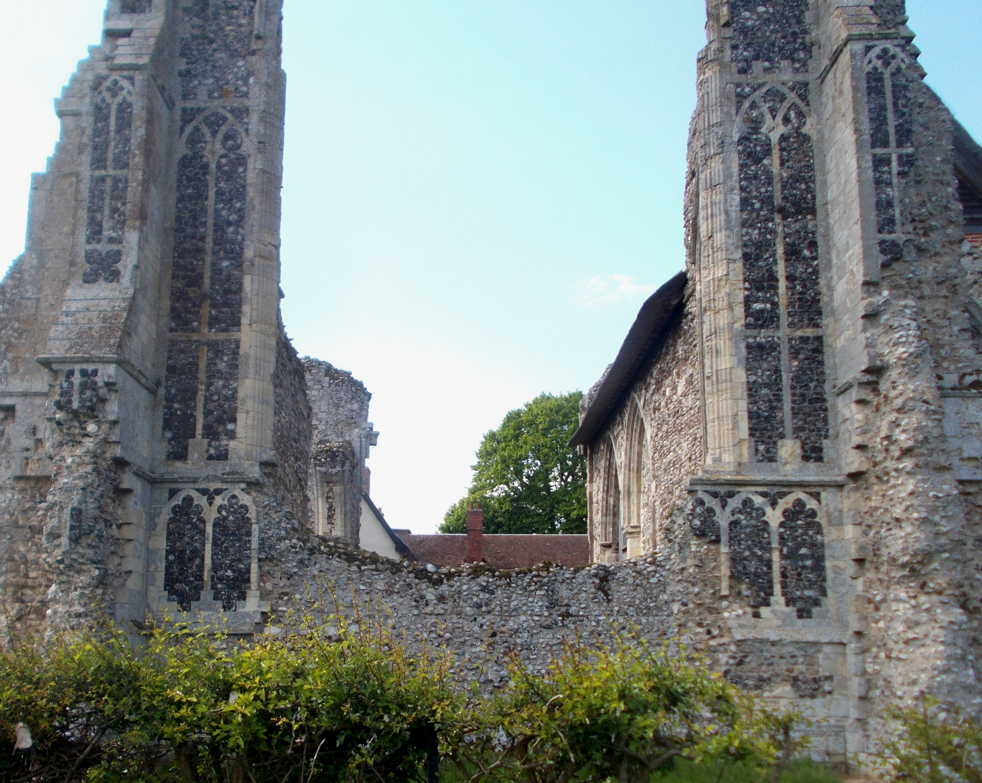 Flushwork tracery at the east end of Leiston Abbey church (external)